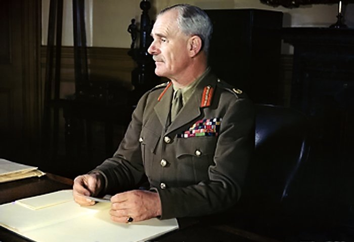 Portrait of the Viceroy of India, Field Marshal Sir Archibald Wavell at his desk - 1943